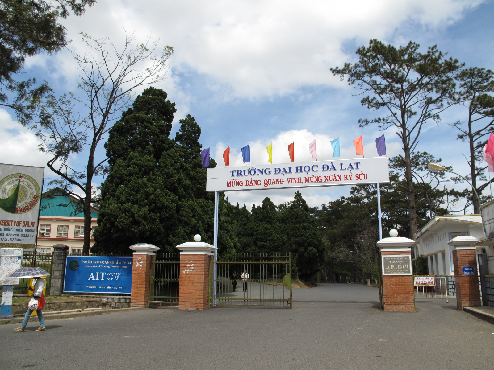 University of Da Lat